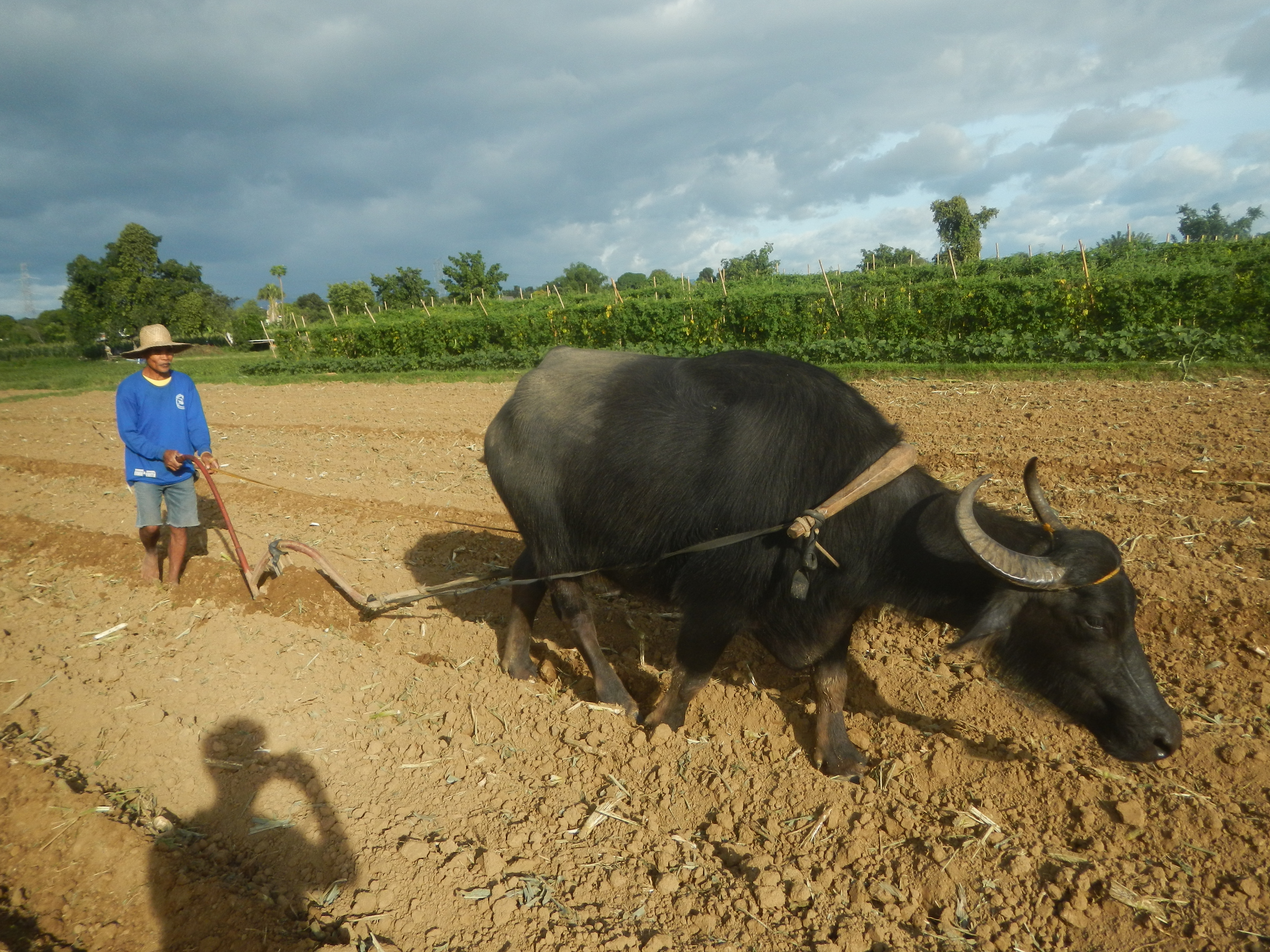 Plowing with Carabaos in the Philippines, Ploughed fields in the Philippines in Barangay Maronquillo, San Rafael, Bulacan Barangay Maronquillo geographical coordinates: 14° 56' 54" North, 120° 57' 44" East San Rafael, Bulacan (Note: Judge Florentino Floro, the owner, to repeat, Donor Florentino Floro of all these photos hereby donate gratuitously, freely and unconditionally all these photos to and for Wikimedia Commons, exclusively, for public use of the public domain, and again without any condition whatsoever).